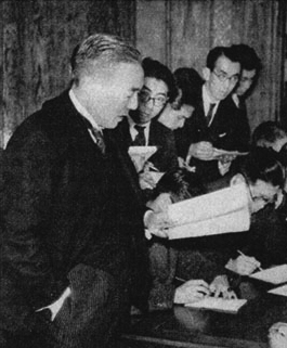 Chief Cabinet Secretary Akira Kazami (1886–1961) briefing press.